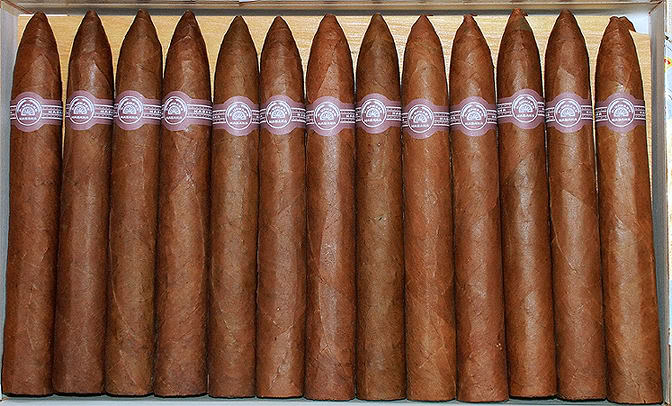 Box of H. Upmann No. 2